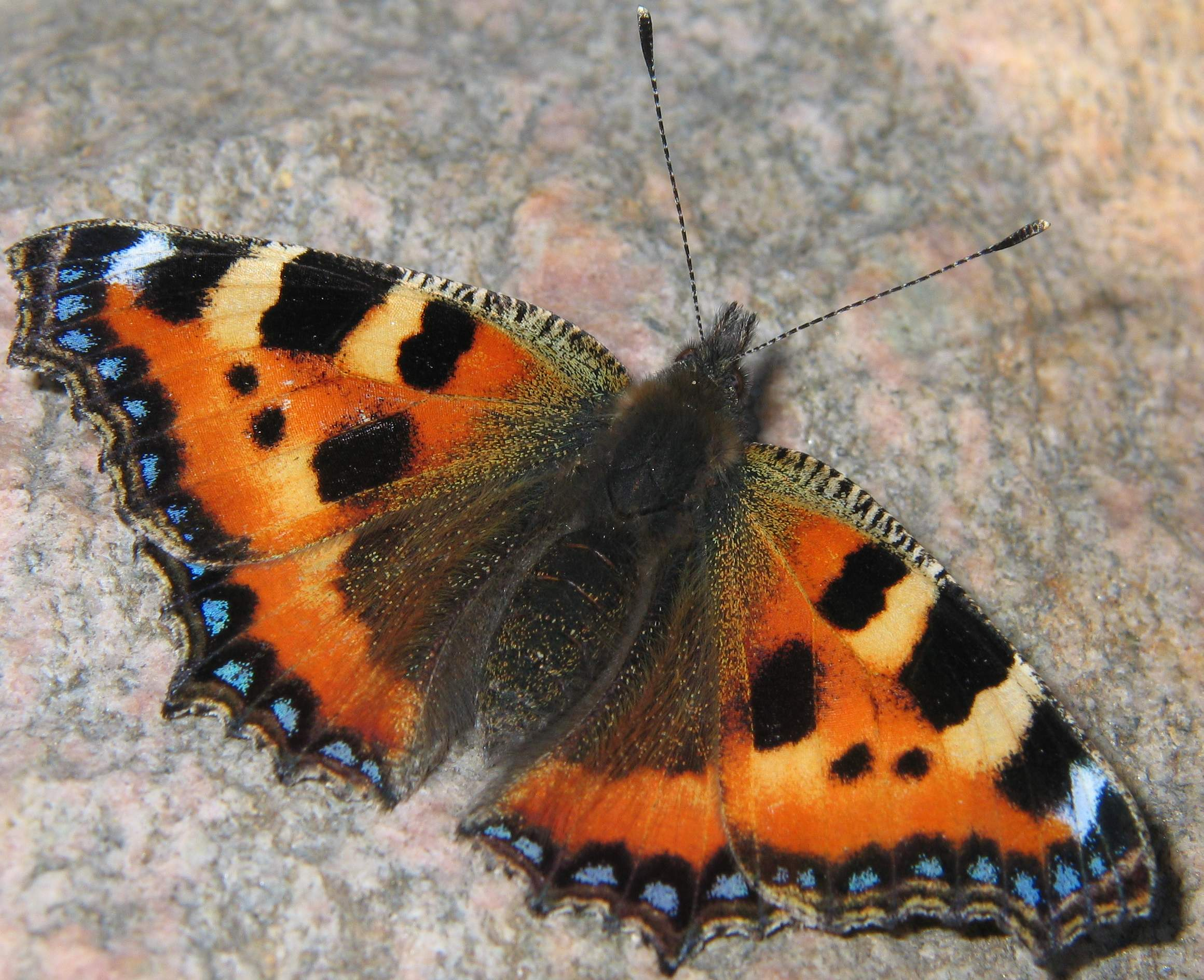 Author: soebe Date: August 15, 2005 Location: Eckernförde, Northern Germany